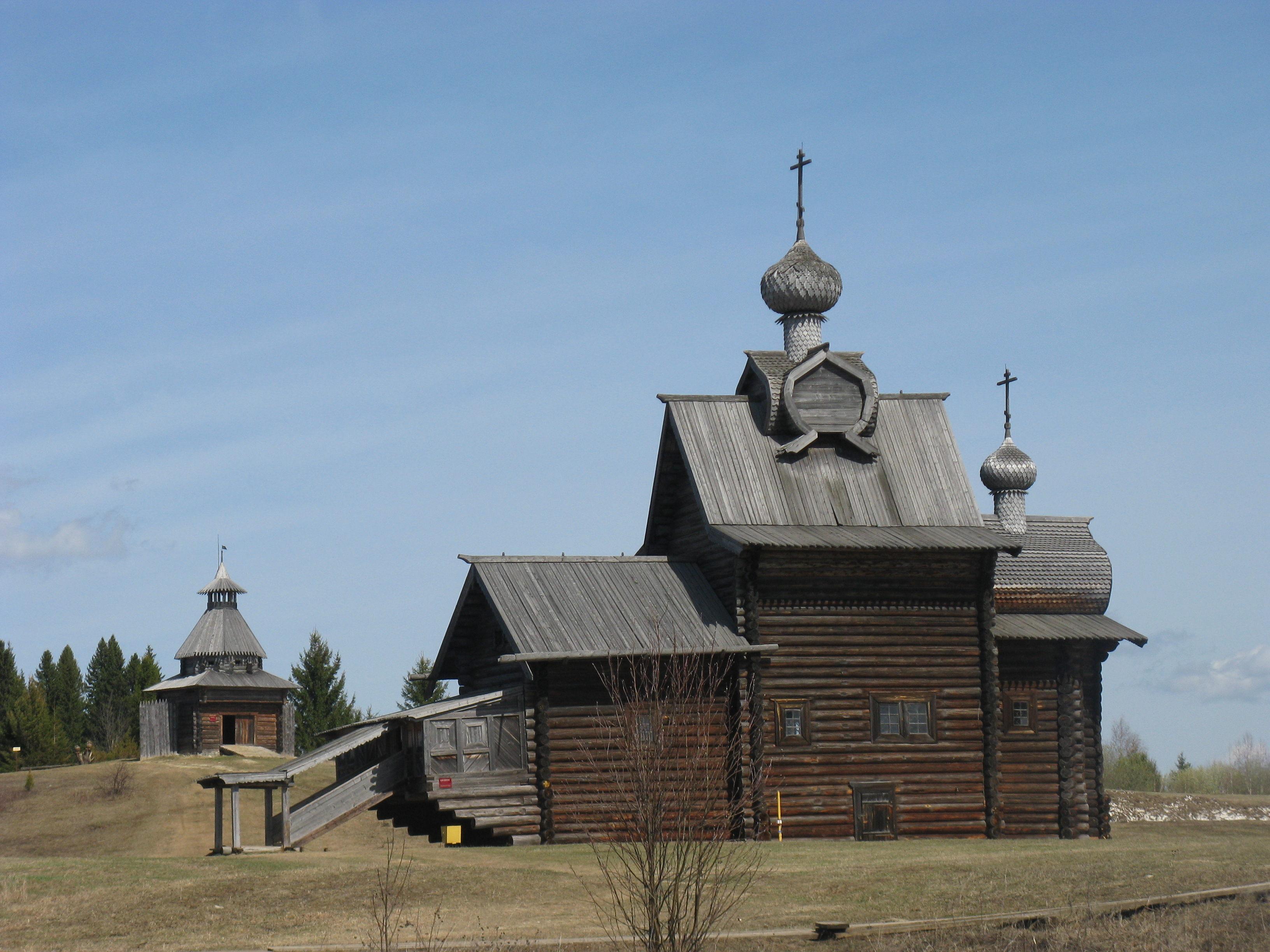 Architectural-ethnographic museum "Khokhlovka". Church of Transformation of the Lord (1707) and a watchtower (XVII century).